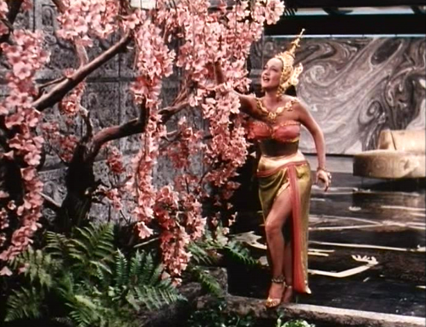 Cropped screenshot of Dorothy Lamour from the film Road to Bali.